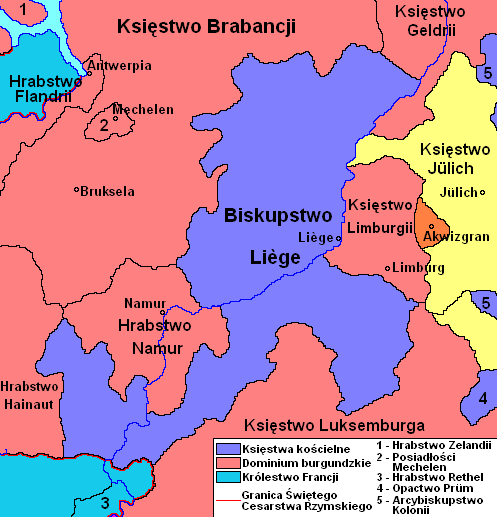 Prince-Bishopric of Liège in 1447